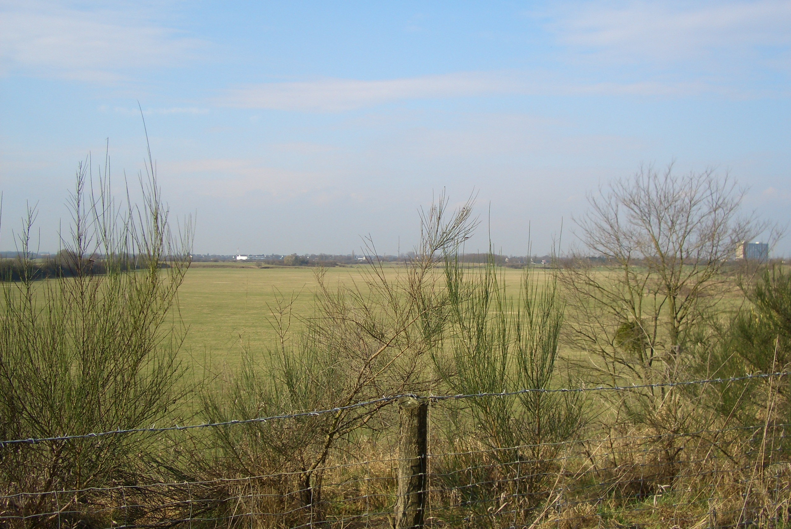 Photo of former gravel pit Missionarsgrube in Sankt Augustin, Germany.